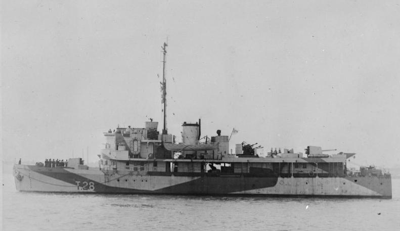 Photograph of British gunboat HMS Locust.